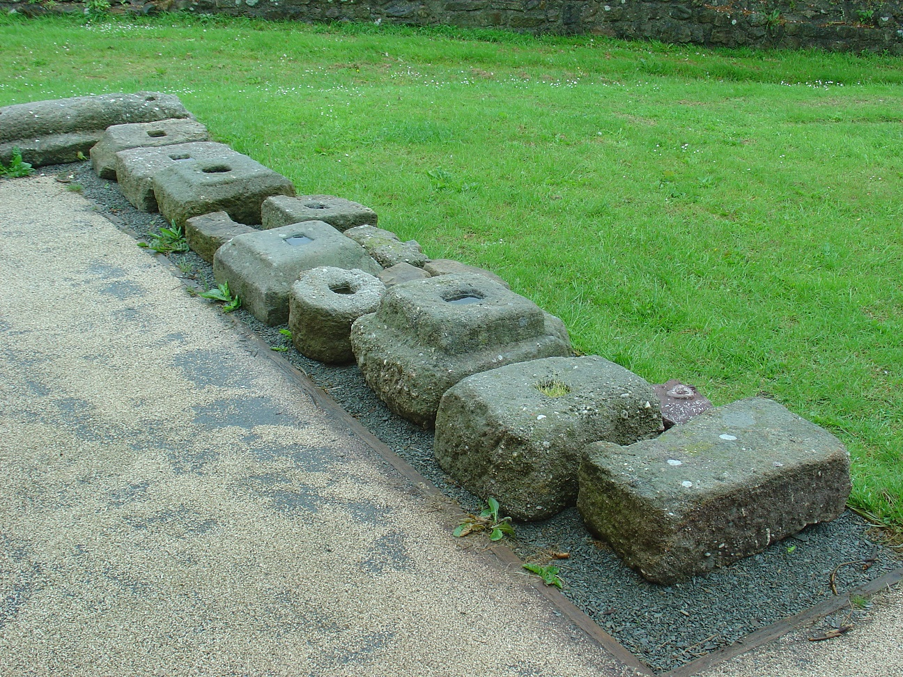 A collection of stone building components unearthed at the archaeological site of Segontium, near Caernarfon, Wales